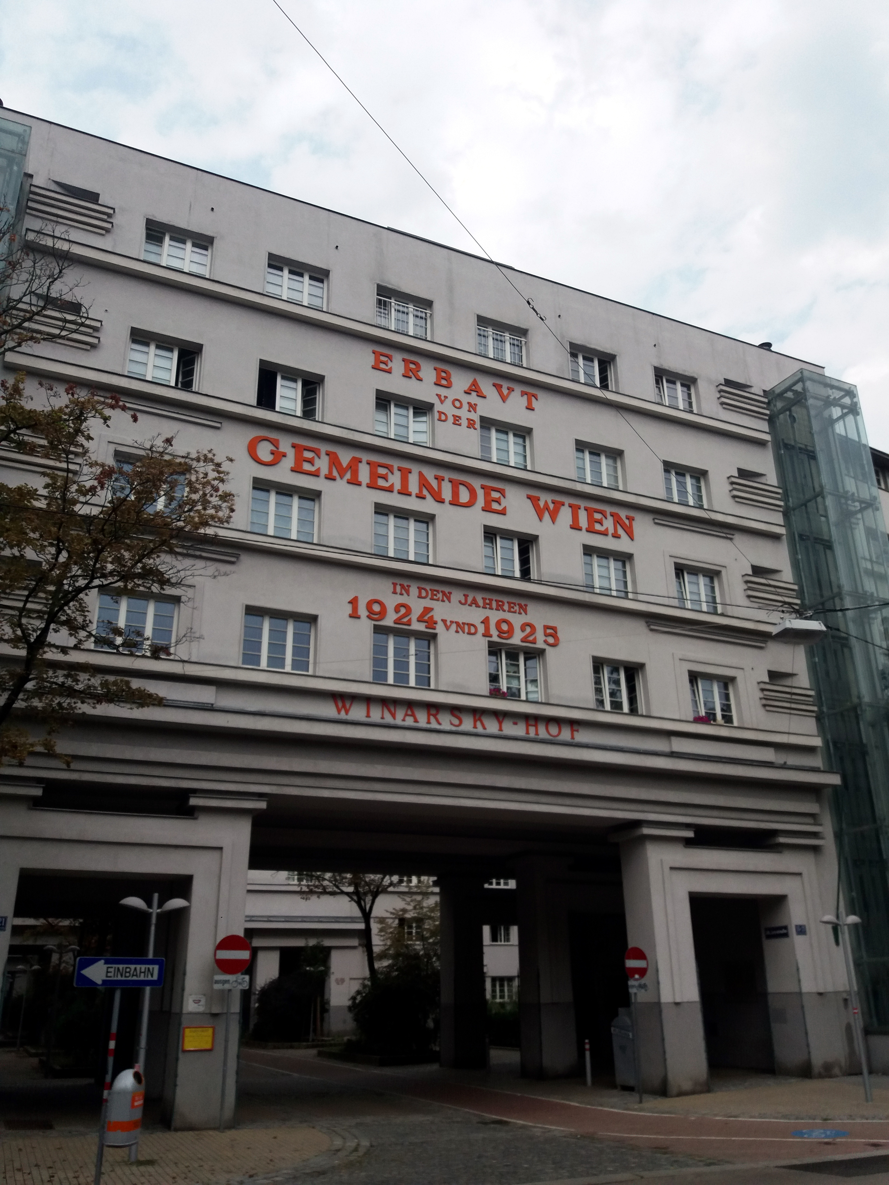 Winarsky-Hof on Winarskystraße, with Leystraße running right through it; Vienna, Austria